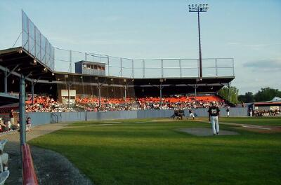 Wachonah Park in Pittsfield, Ma. - 5/12/06